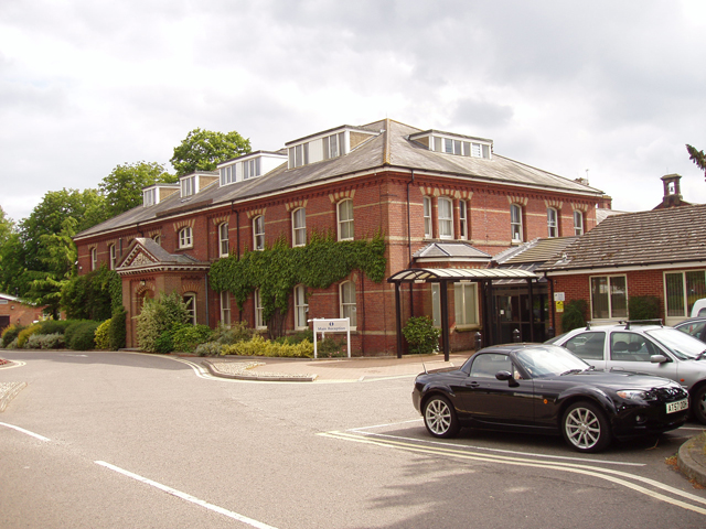 Hellesdon Hospital Main Entrance to the Hospital, on Drayton High Road, Norwich. This is also the Headquarters of Norfolk & Waveney Mental Health NHS Foundation Trust.